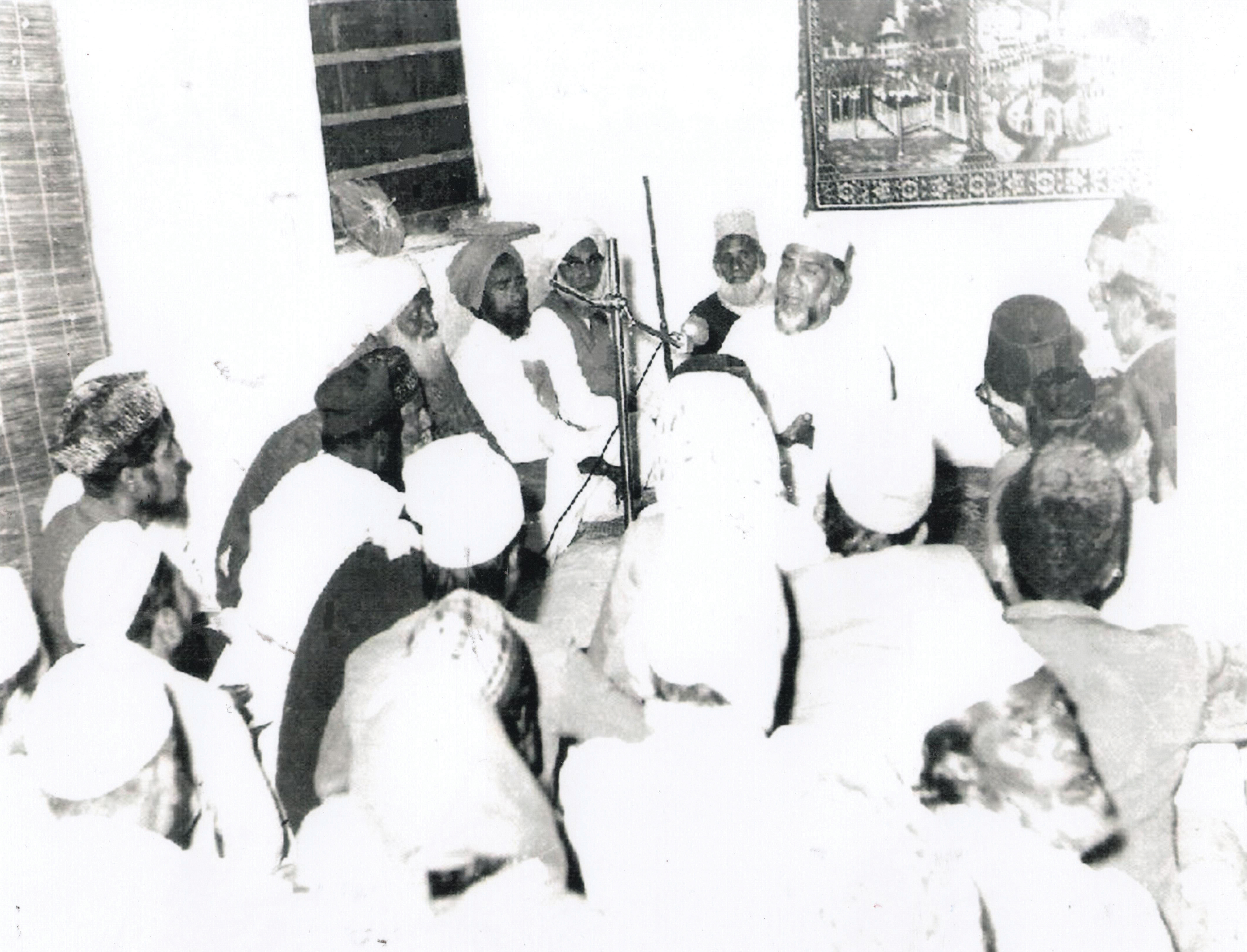 Alhaj Hazrath Moulana Peer Sahvi Shah Speech Photo